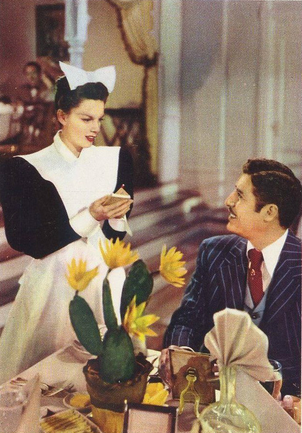 Scene from the film The Harvey Girls (1946) picturing Judy Garland and John Hodiak.